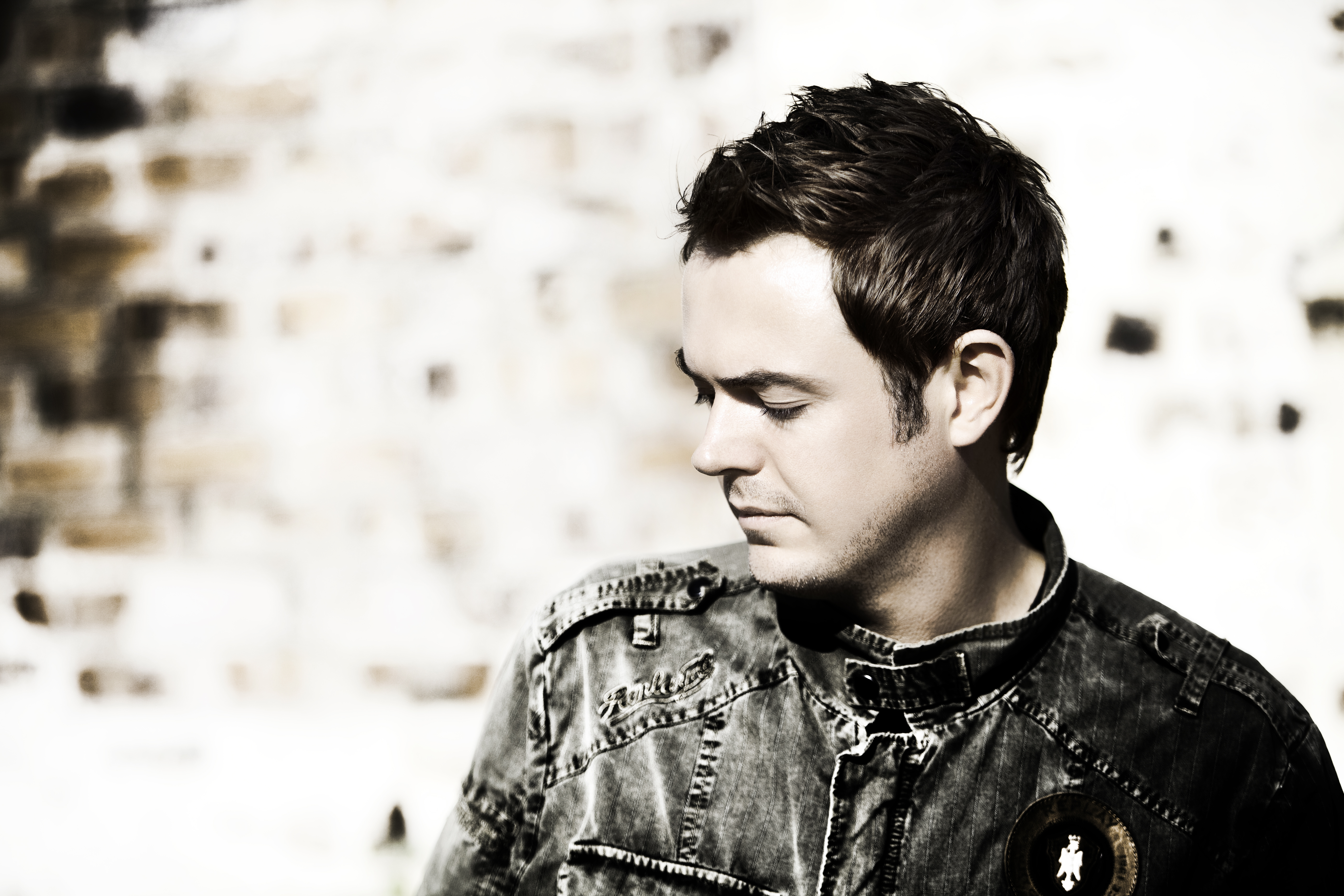 This photo of andy moor was shot for his Album release.